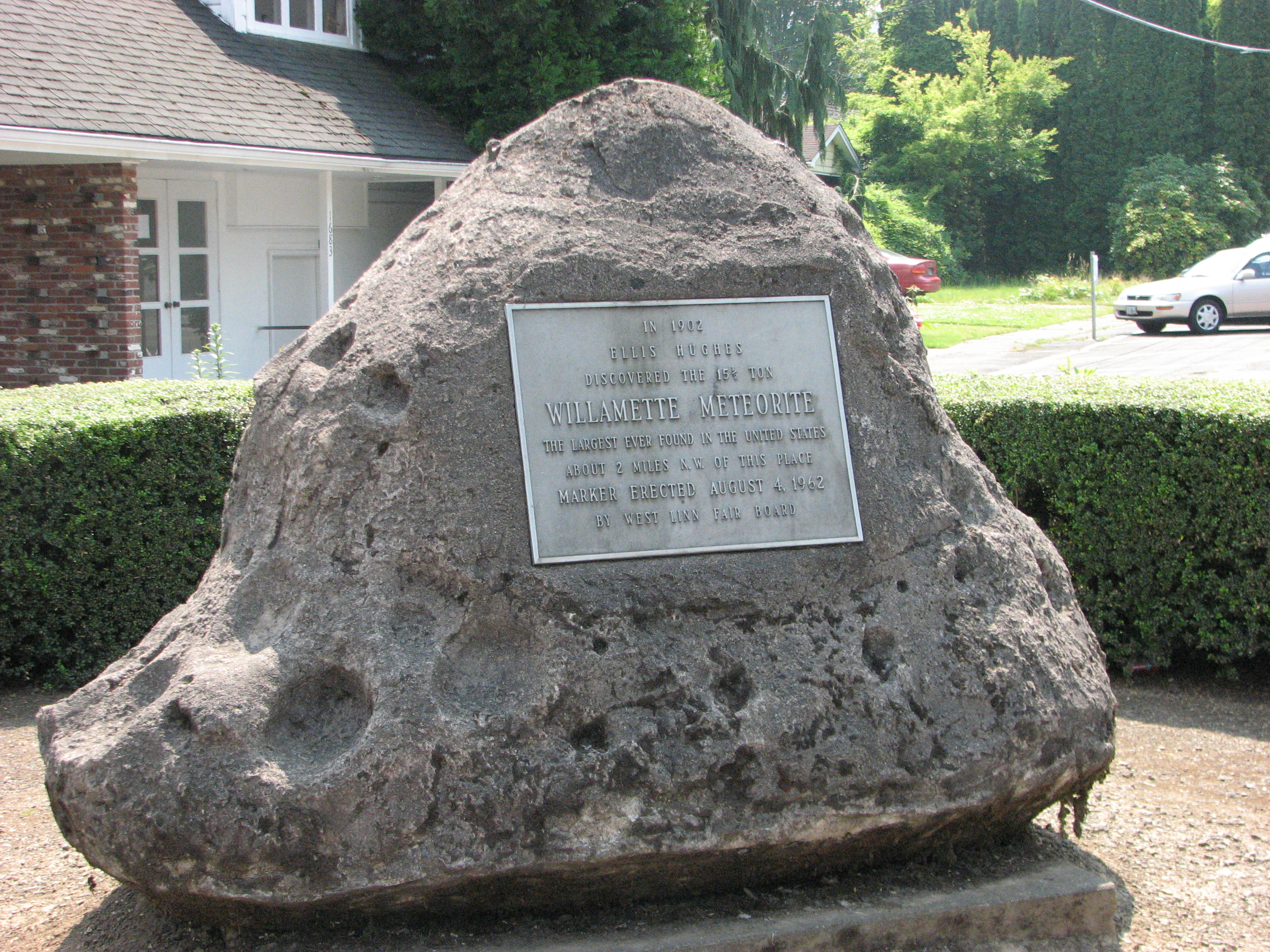 The Willamette Meteorite marker in the Willamette area of West Linn, OR, commemorating the rock's discovery in the vicinity.